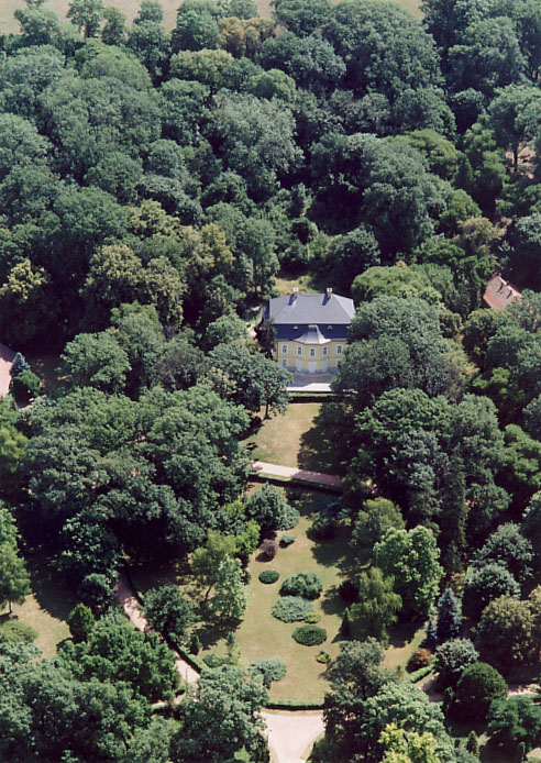 Bátonyterenye - Hungary - Europe